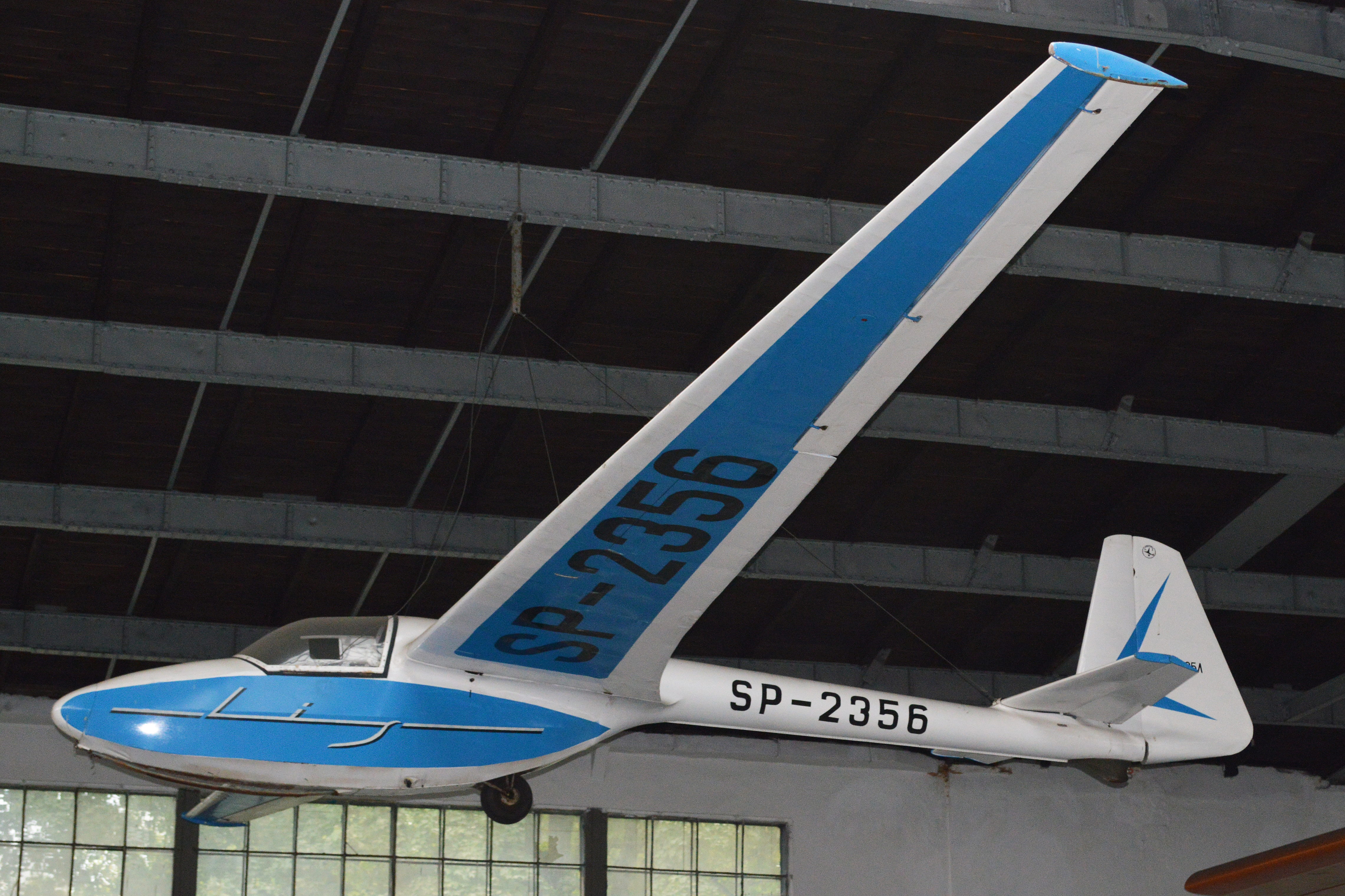 c/n F-740. On display suspended in the main display hangar at the Muzeum Lotnictwa Polskiego Krakow, Poland. 23-08-2013.